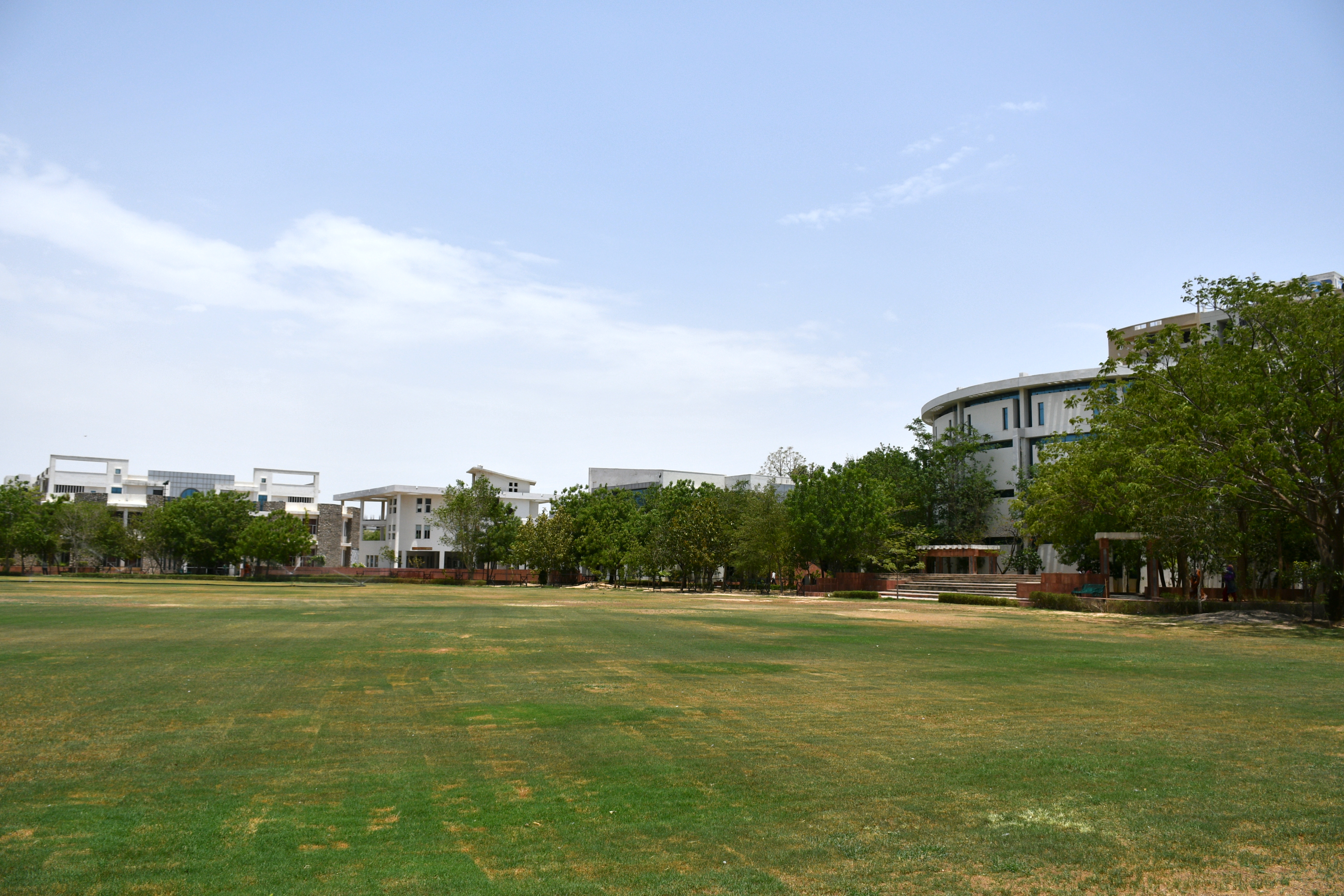 Greenery at Suresh Gyan Vihar University